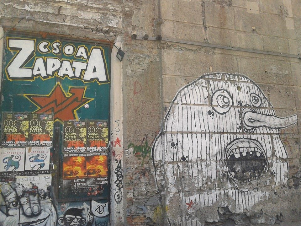 Entry of the famous CSOA Zapata - social center - Genoa, Sampierdarena